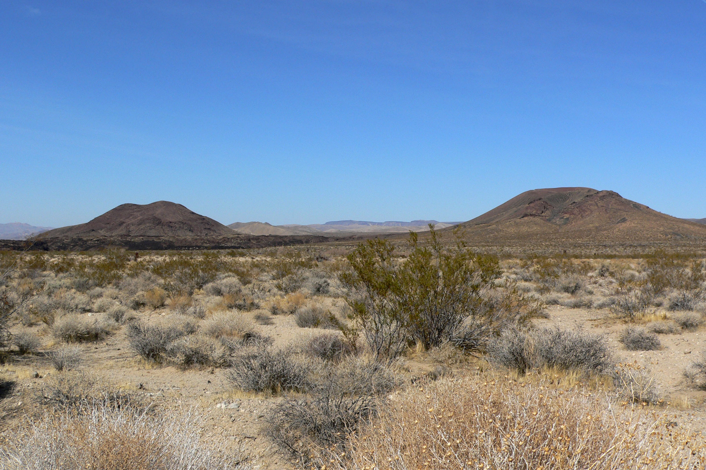 Cinder cones visible from Kelbaker Road near Willow Wash, Mojave National Preserve, southeastern California